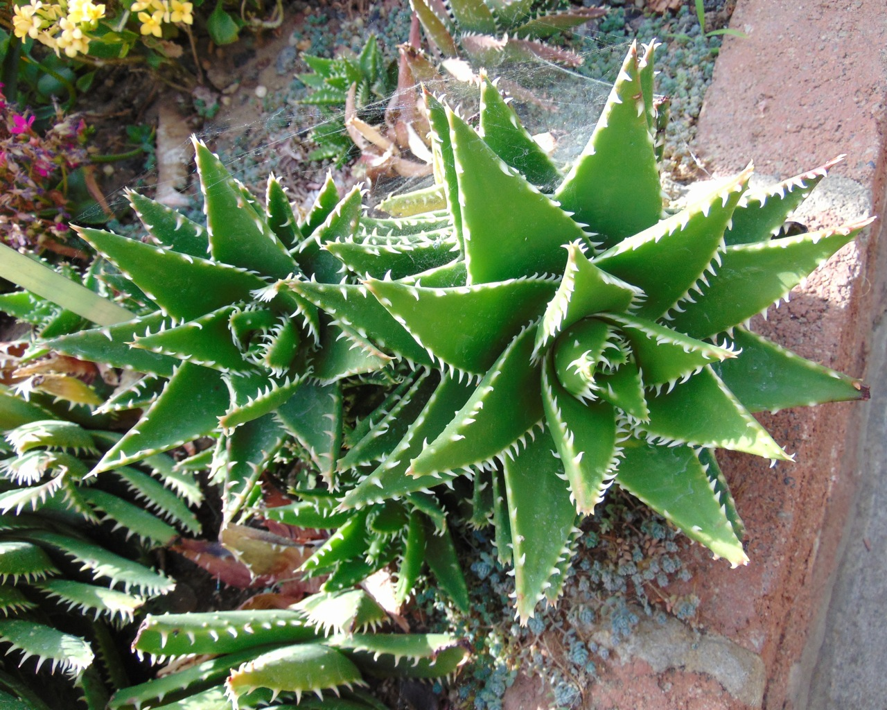 Centennial Park Conservatory, Toronto Please respect author's moral rights by not changing this description or the image title.